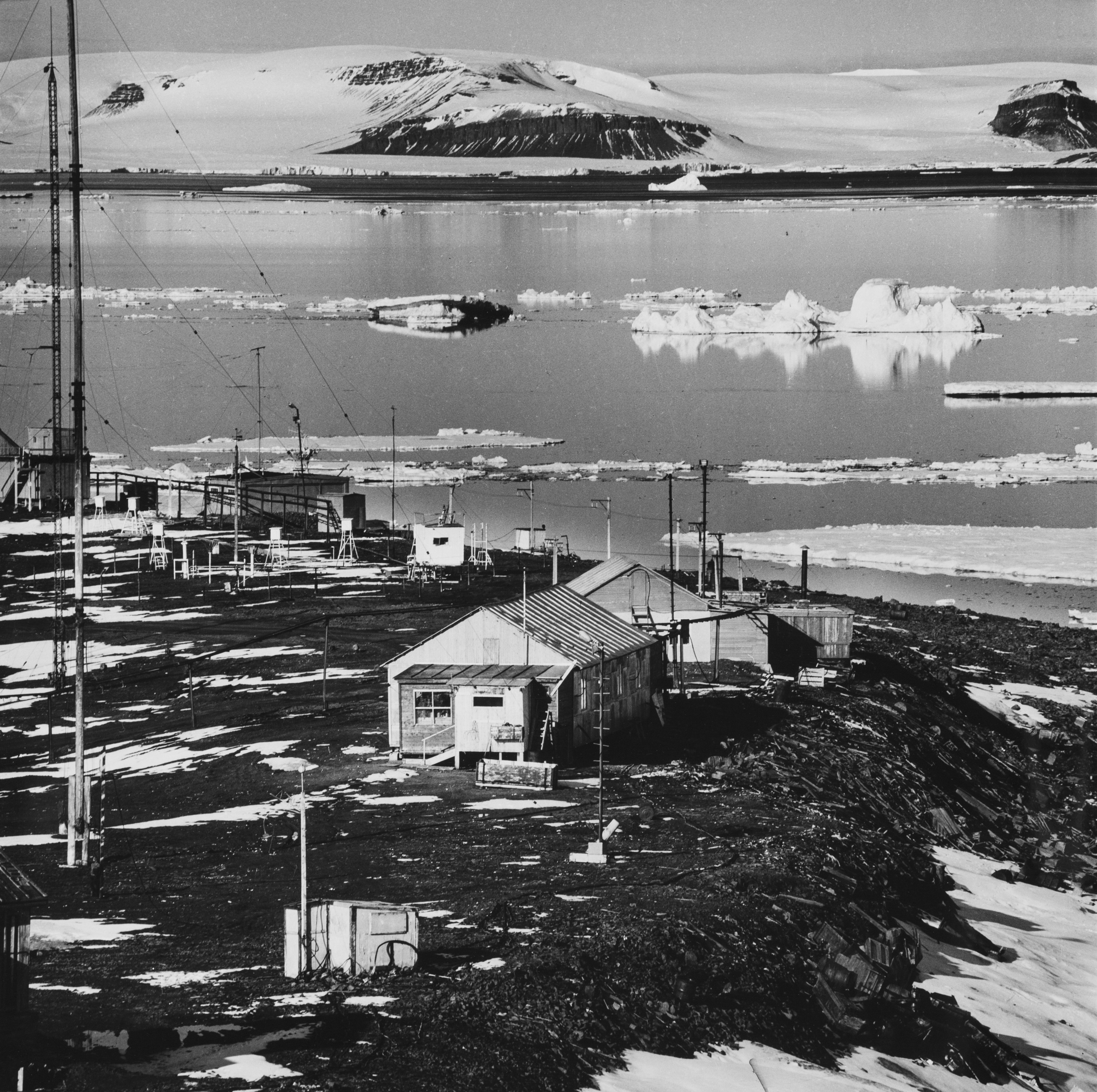 Arctic observatory on Heis island (FJL)